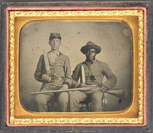 digital file from original photo, post-conservation, mat added photographically